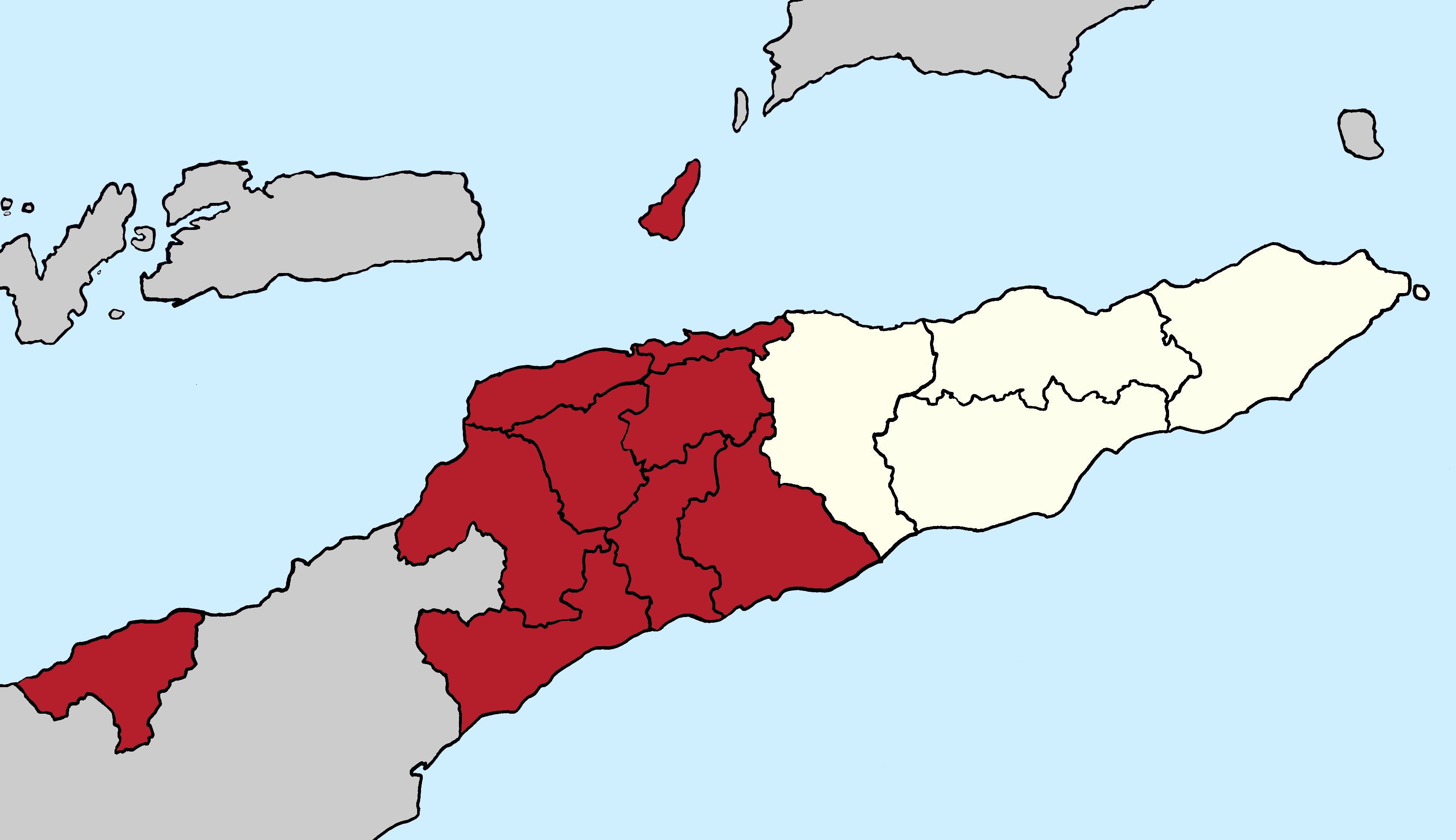 Map of East Timor showing the regions Loro Munu (red) and Loro Sae (white). Map after reformation of the municipalities borders 2015.